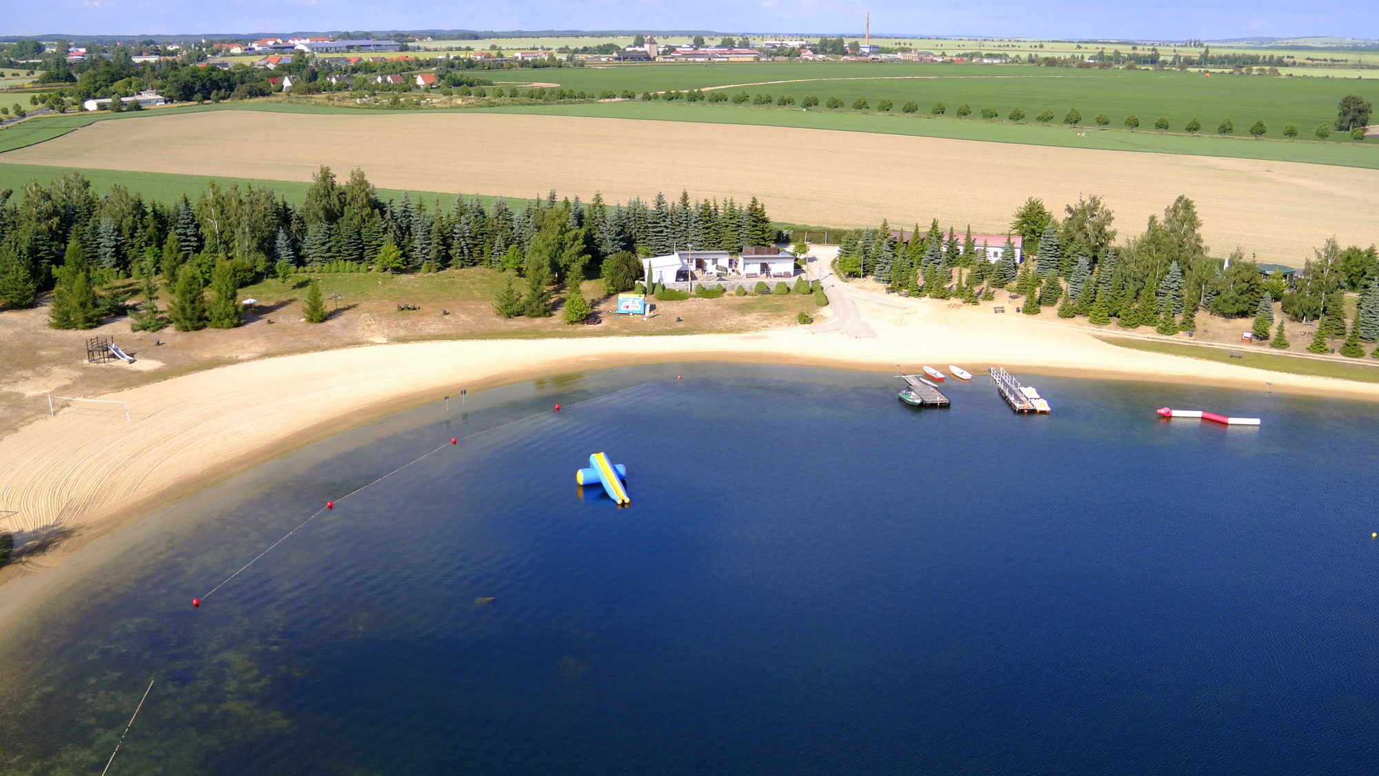 KAP (Kite Aerial Photography)